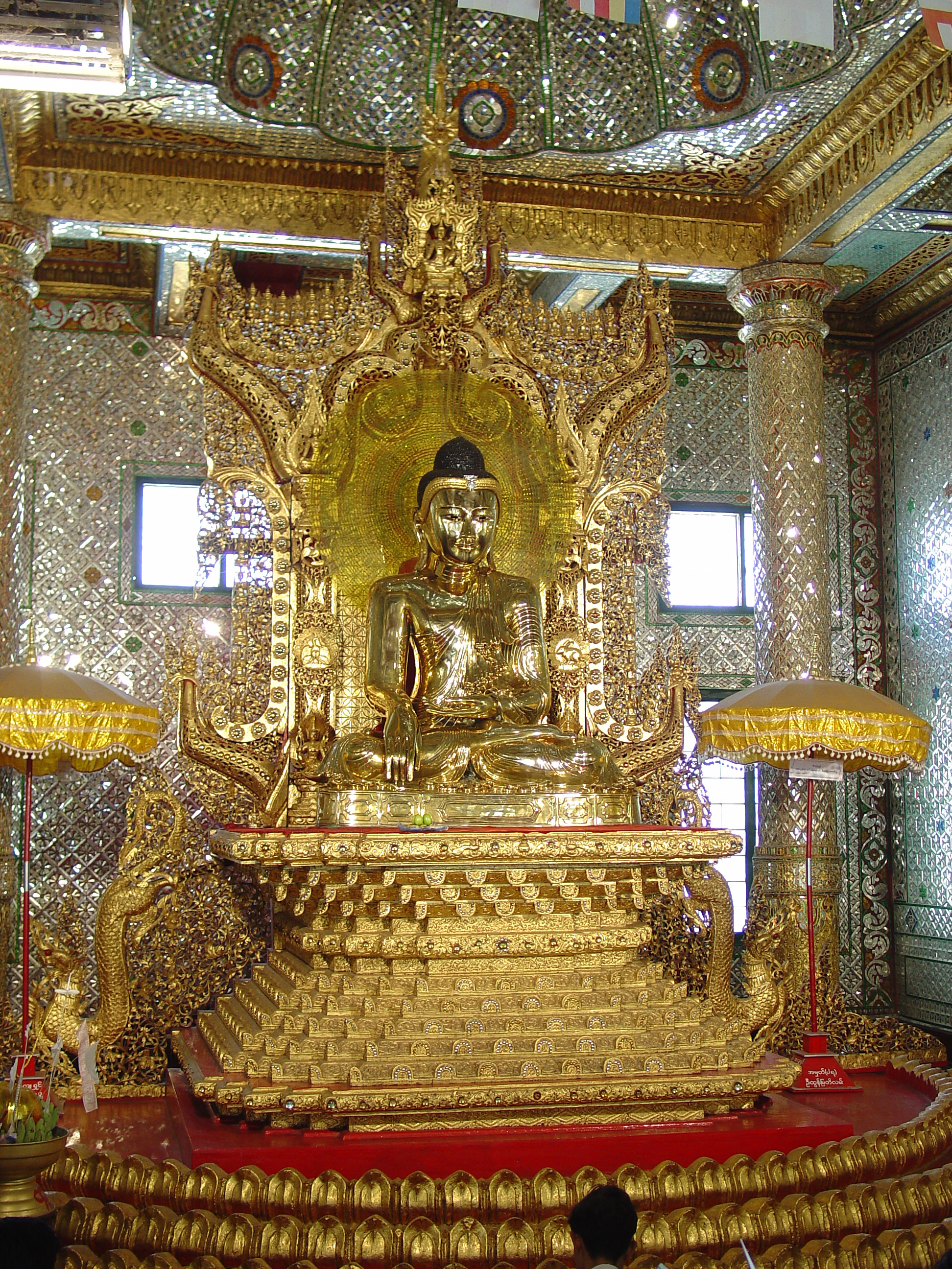 According to the Lonely Planet Guide, this mid-19th century statue was taken to London after the British annexation, and only returned to Burma in 1951. It is housed in a separate pavilion near the stupa; the mirrored wall decoration is like the decoration inside the stupa. Botahtaung is an alternate spelling of this temple.